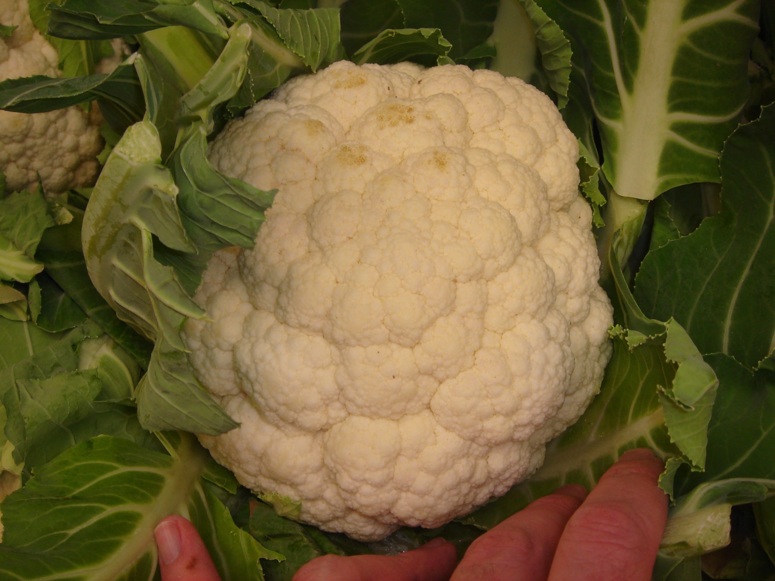 Cauliflower photographed in Woolworths store in Melbourne, Australia